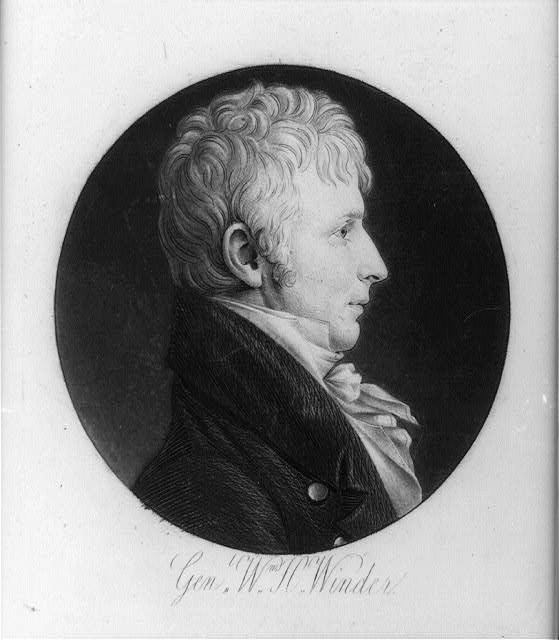 Gen. Wm. H. Winder.